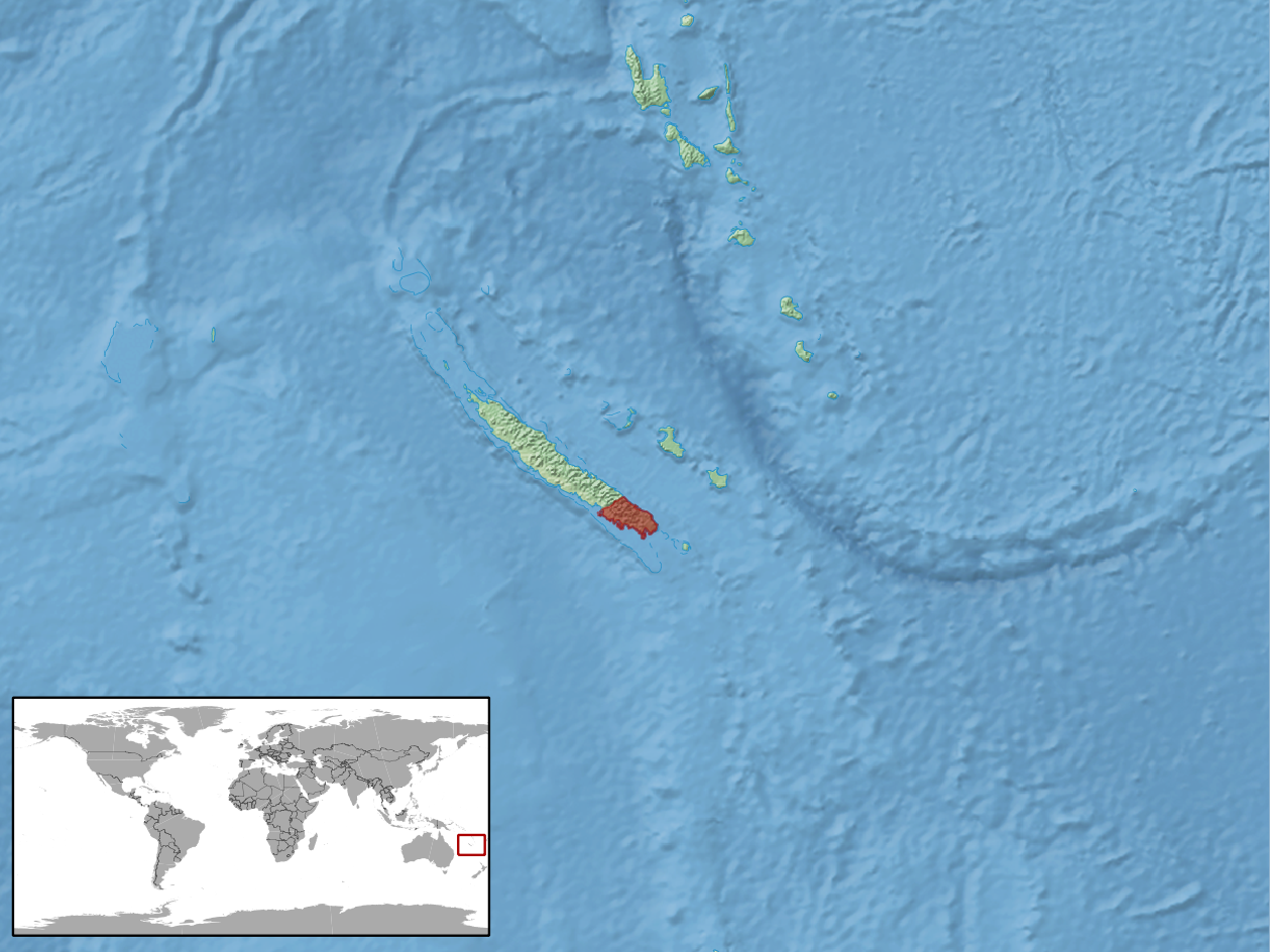 geographic distribution of Tropidoscincus variabilis